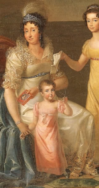 This is a detail from a painting showing the Sardinian royal family